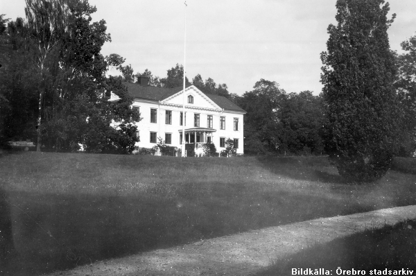 The manor Hammarby outside Nora, Sweden